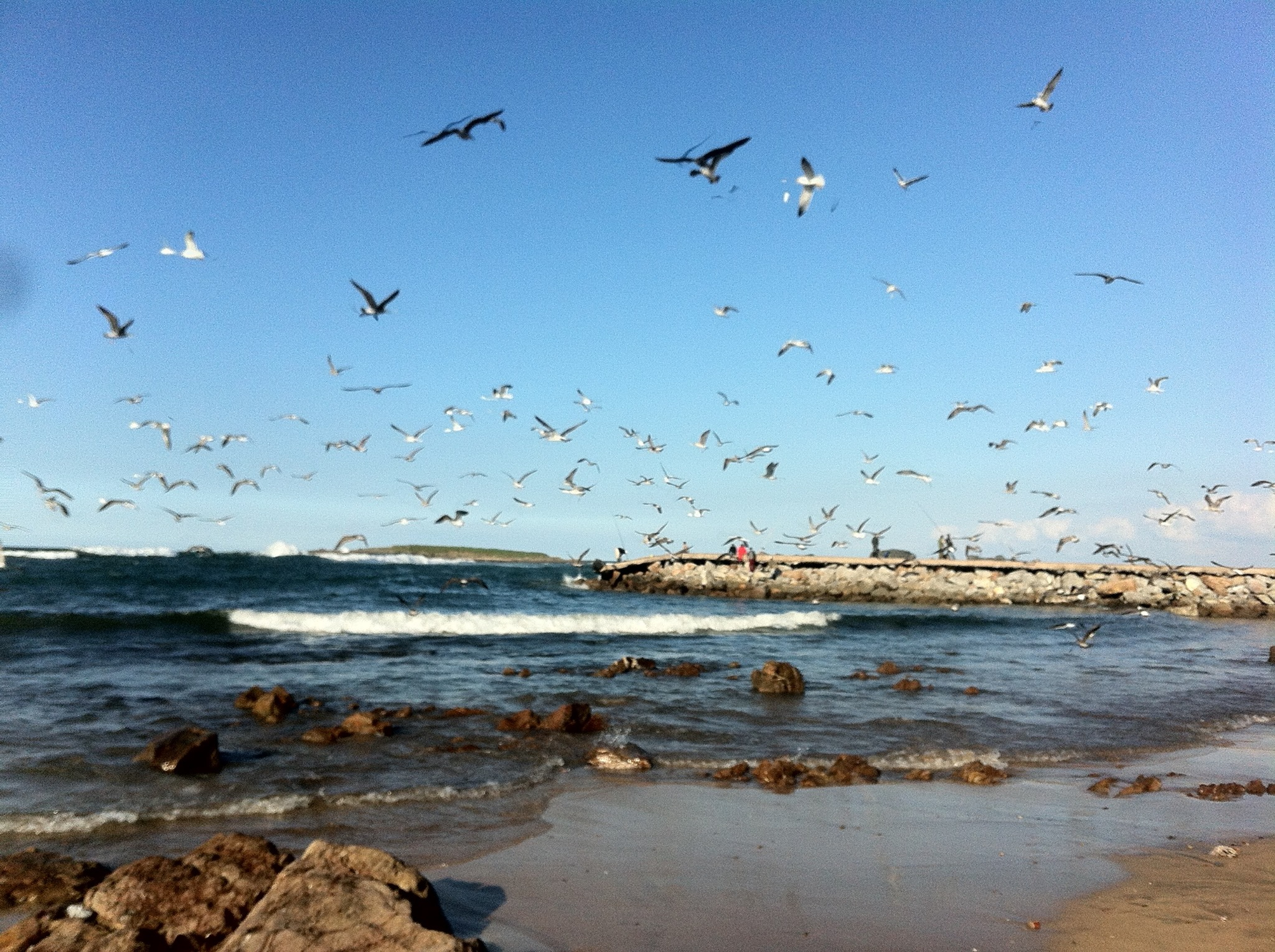 par: Miloud Nouasria